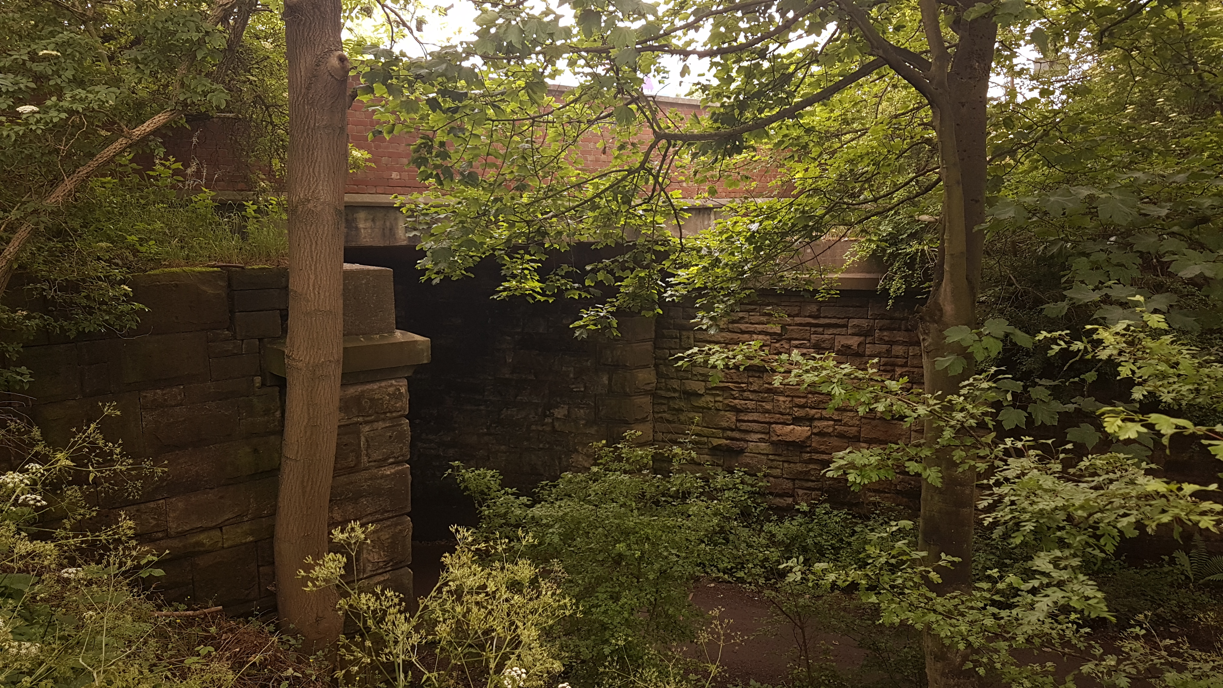 View South towards Wellfield Road Bridge over the Hart-Haswell Walkway at the site of Wellfield Railway Station. The station booking office was located on the near side of the bridge, where the abutment tops are now exposed (the bridge having been widened to enable the road and booking office to both sit on top). The station platforms were located out of shot to the right, the photographer being stood on a path which traces the route of a former path which once provided access to up (southbound) platform, although all remnants of the original station platforms have been demolished. The station opened in 1882 to allow interchange between the North Eastern Railway's then newly opened Castle Eden Railway from Redmarshall and the route of the Hartlepool Dock & Railway Co. line of 1835 from Hartlepool; the latter was later incorporated into the NER's inland West Hartlepool to Sunderland via Haswell Line. Stopping Castle Eden Railway services ceased in 1931 but the station remained open until 1952 (it had never been served by goods trains) and a single line through it was retained until around 1984.